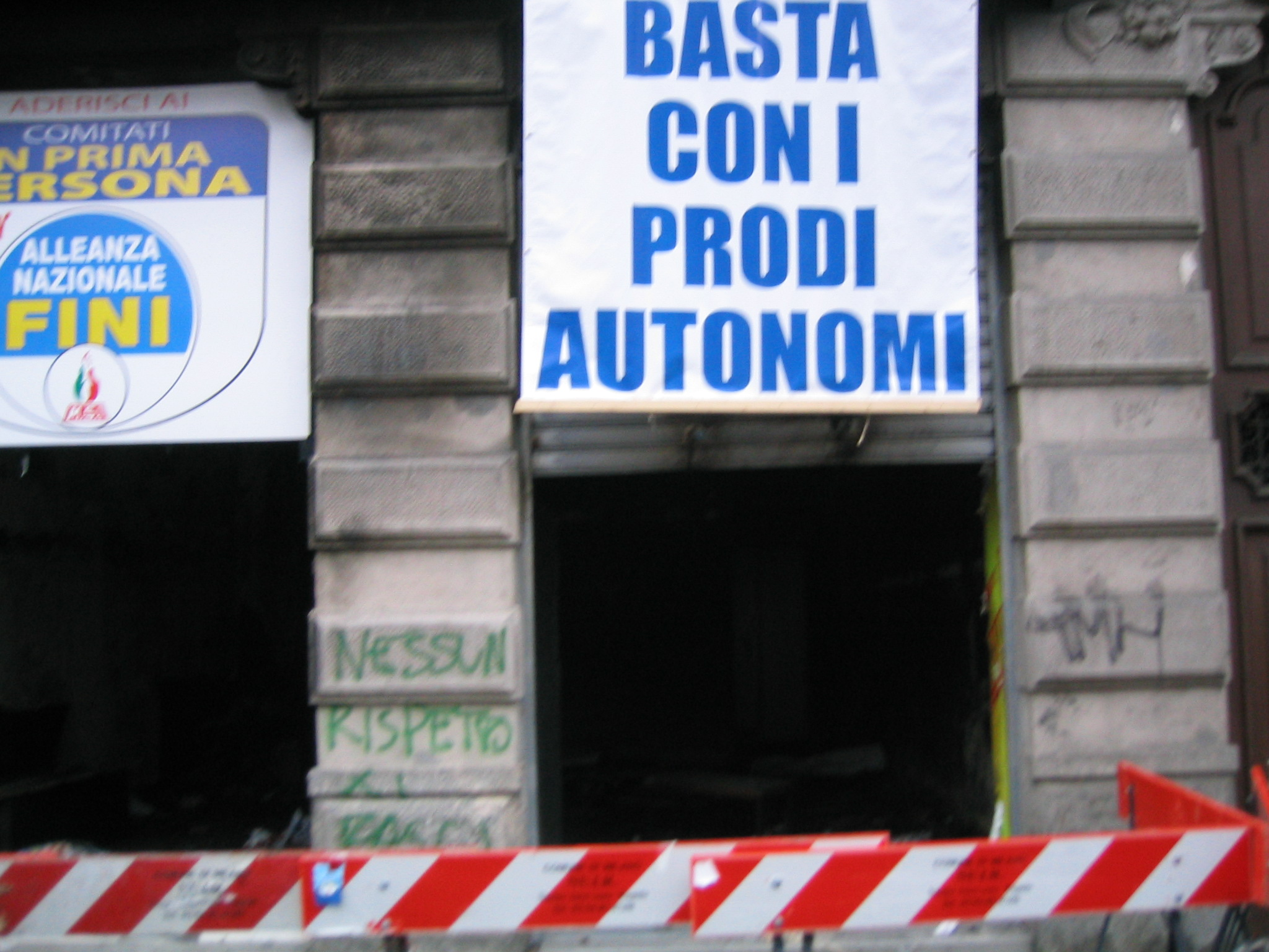 Photograph of right wing party "Alleanza Nazionale" (AN) shop in Corso Buenos Aires in Milan, burned during a riot on Saturday 11 March 2006. Photo taken on Tue 28 March 2006.